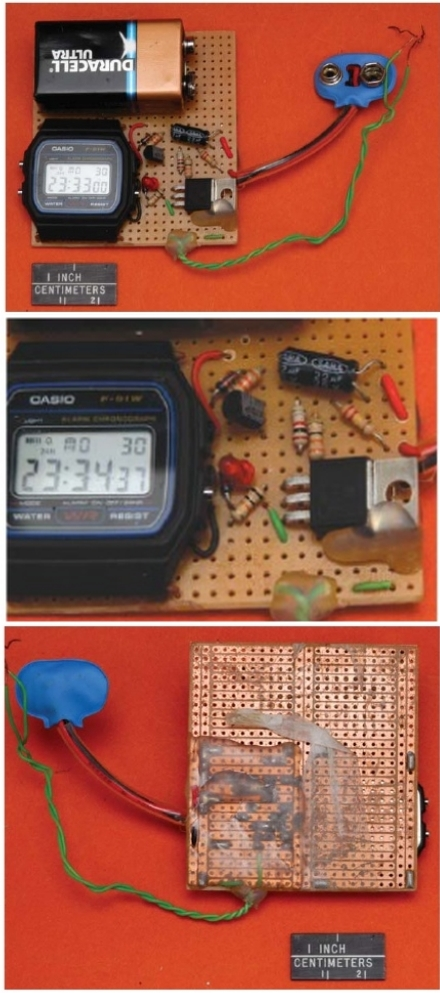 al Qaida watch timer Original caption: “ Al Qa'ida Casio Watch Timer on Perf Board Recovered in late 2002, this timer has a more complex interface that the simple Casio Watch Timer (Sheet 05706), but will not activate on the hourly chime. It has no safe-arm delay timer, as the opto-isolated detector circuit (Sheet 03340). *Time Delay: User programmable up to 23 hours, 59 minutes in one minute increments. *Power Source: Standard 9-Volt batteries for the detector circuit and detonator. The watch operates on its internal battery. *Anti-Tamper Features: None *Watch Type: Casio F-91W, but other digital alarm watches could be utilized. *Size: The printed circuit board measures 67mm x 62mm (2.6" x 2.4") with a maximum assembly thickness of 19.5 mm (0.8"). *PC Board Substrate: Perforated, single-sided epoxy-fiber-glass experimenter board. ”